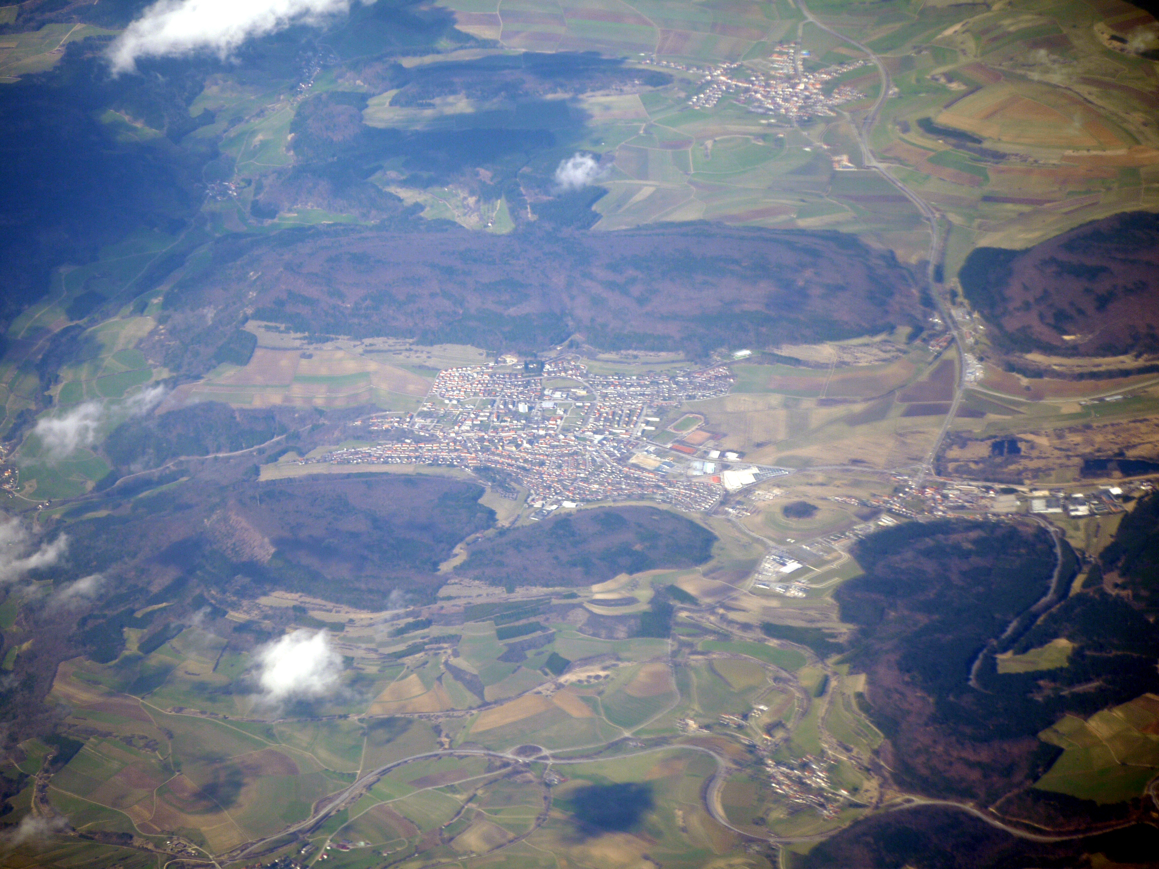 Blumberg, photograph taken from the sky, on the fly line between Marseille and Stockholm.